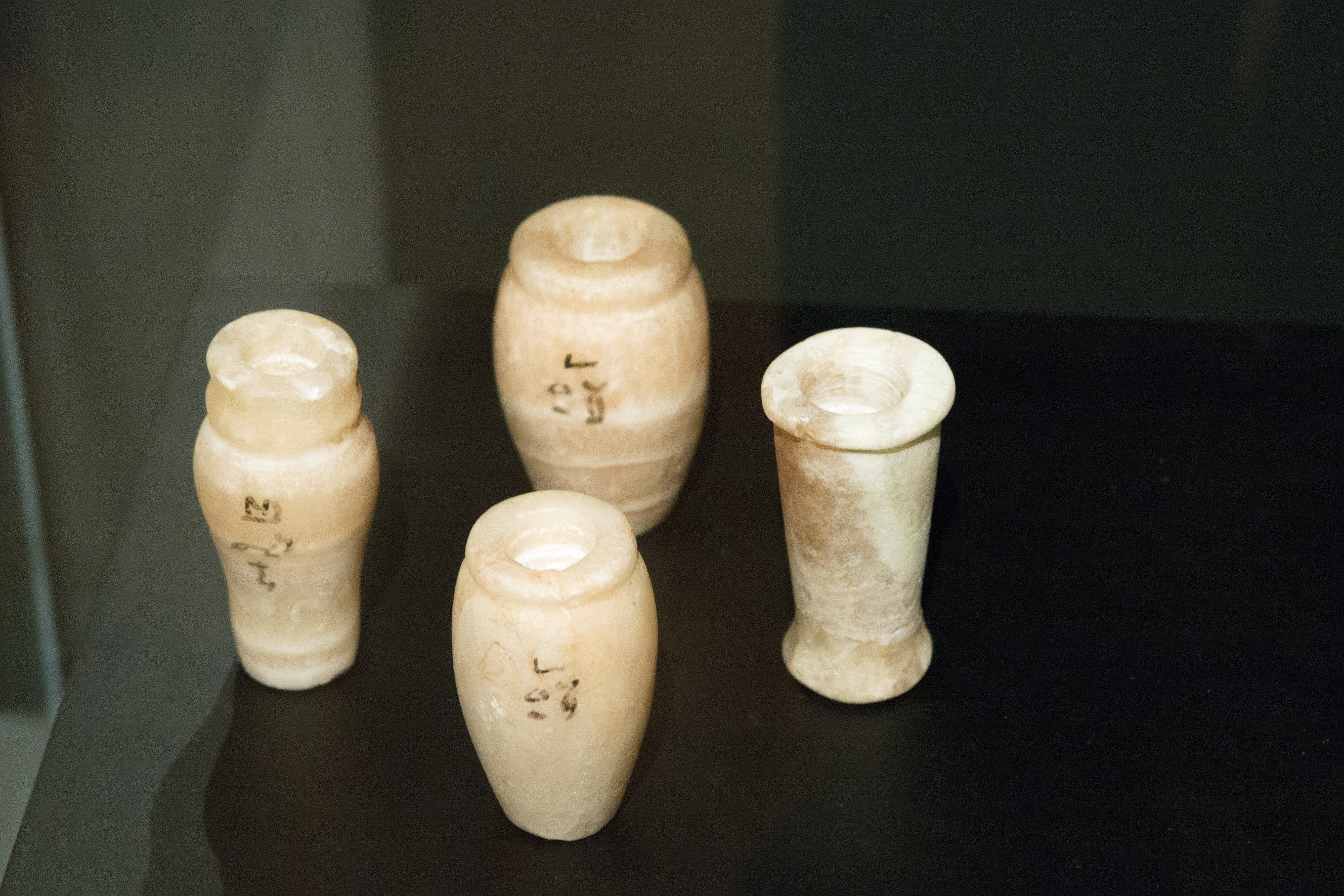 Items from the funerary equipment from the tomb of Princess Khekeretnebty. Lower Egypt, Abusir, Djedkare's family cemetery. Old Kingdom, 5th Dynasty (2510 - 2365 BC). Expedition of the Czechoslovak Institute of Egyptology, National Museum in Prague.